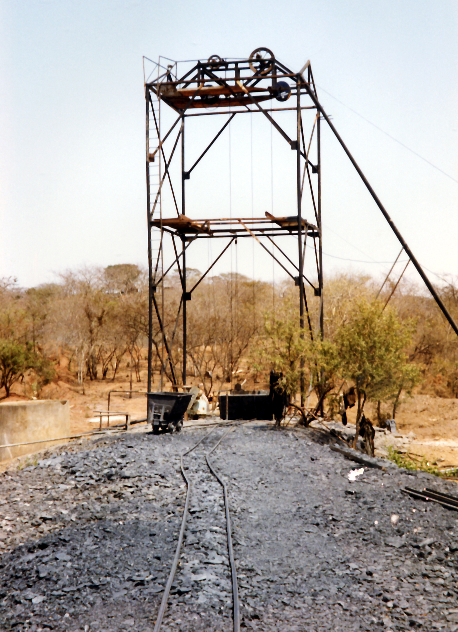 Agincourt Mine in Mberengwa, ZImbabwe by kevinzim